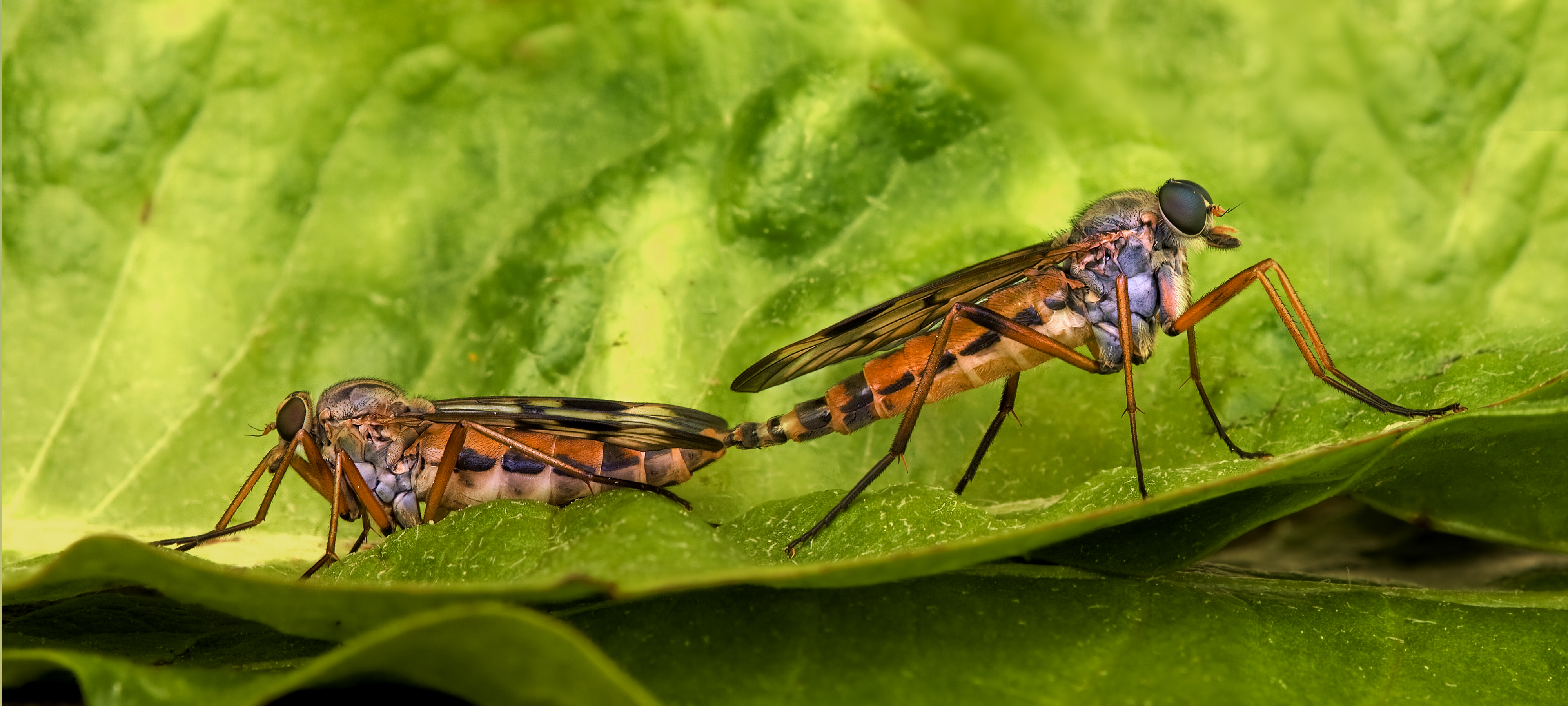 A couple of mating Snipe flies (Rhagio_scolopaceus). Rhagionidae or snipe flies are a small family of flies containing 21 genera.